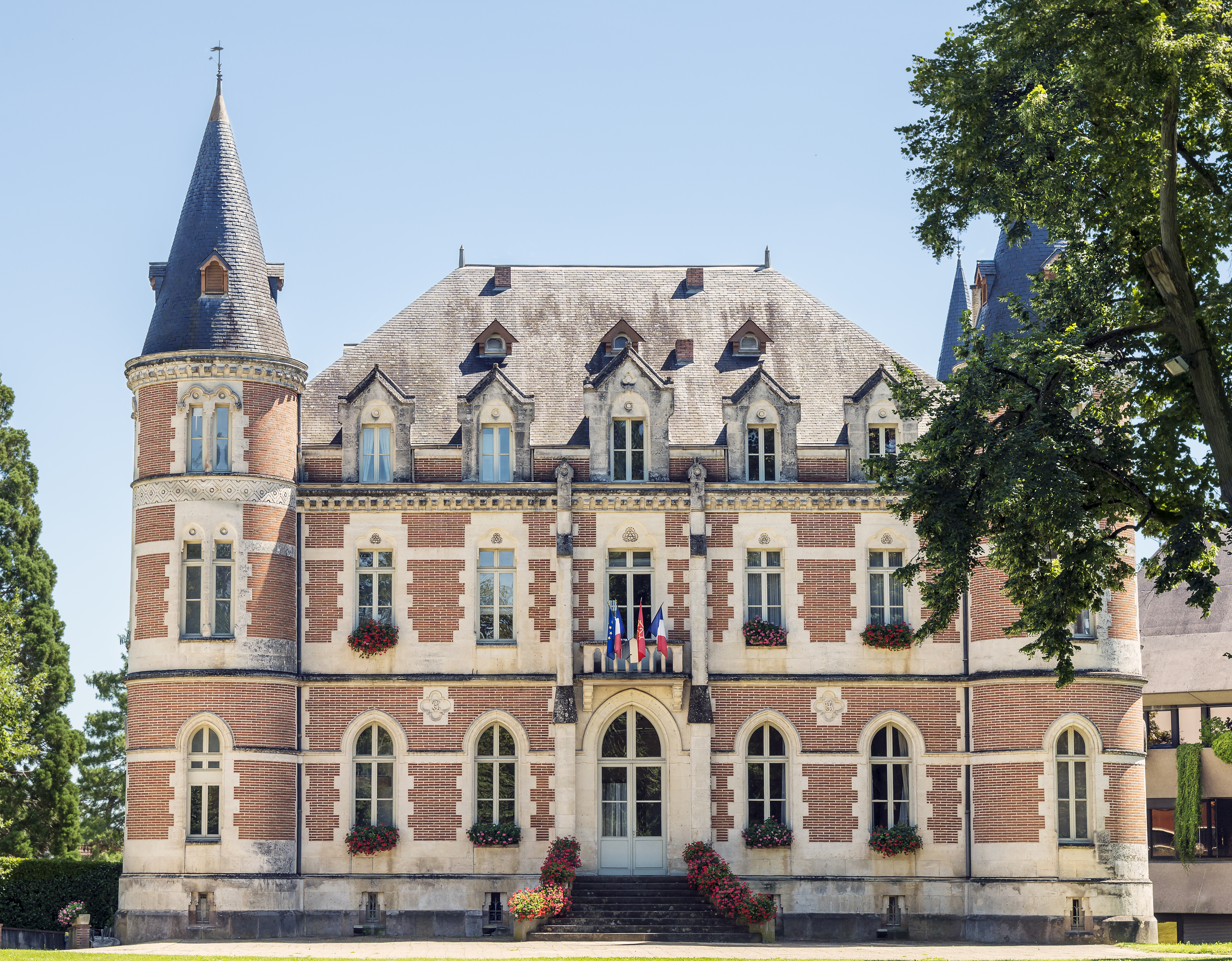 Northern facade of the castle of Montauriol, seat of Conseil départemental de Tarn-et-Garonne, 100 boulevard Hubert Gouze in Montauban